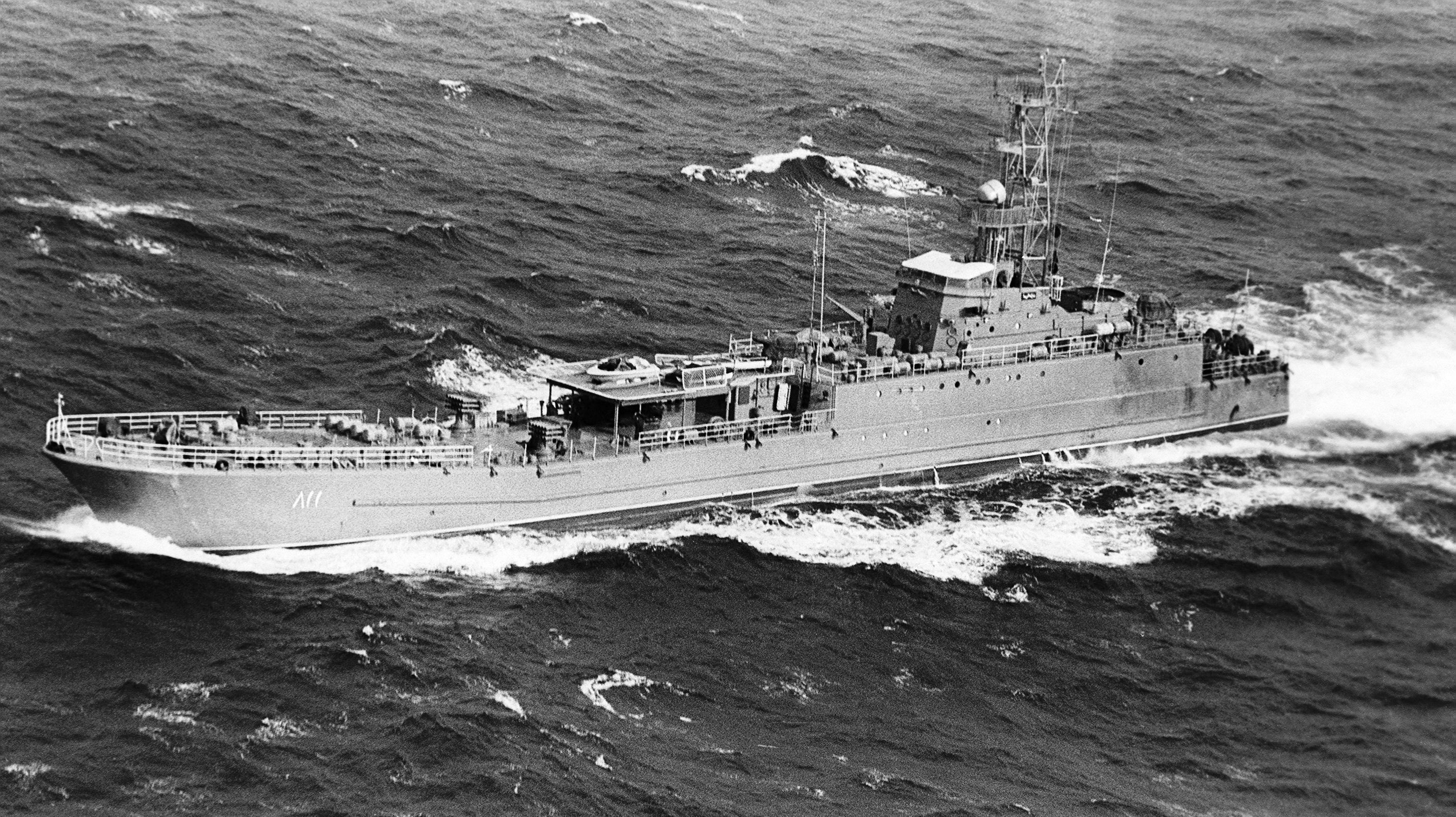 A port quarter view of the Soviet-built Libyan project 773KL (NATO code - Polnochny C class) medium landing ship Ibn el-Furat.